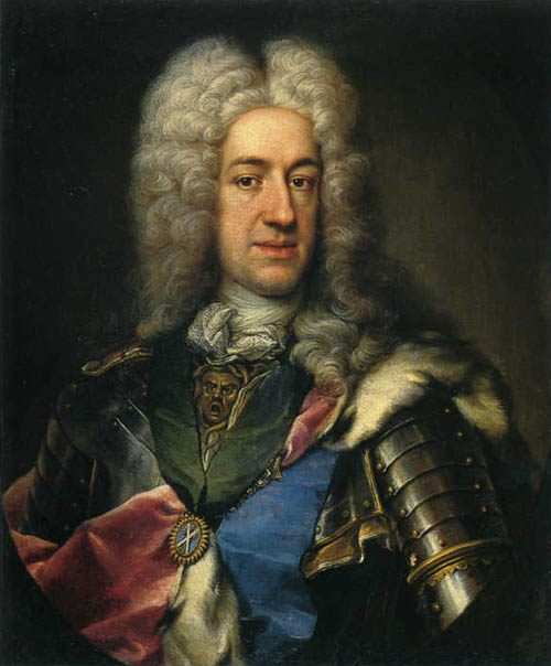 Portrait of James Francis Edward Stuart (1688-1766), the Old Pretender